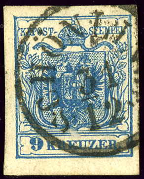 Austrian KK 9 kreuzer stamp, cancelled at SCHÖNLINDE, after 1850, Bohemia